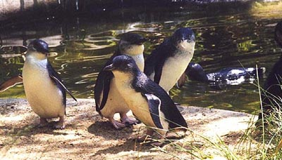 Fairy penguins at the Royal Melbourne Zoo Australia